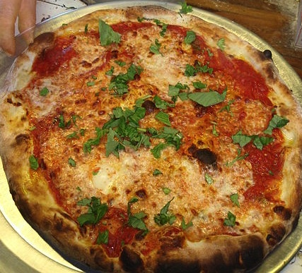 Di Fara Pizza from Brooklyn, New York